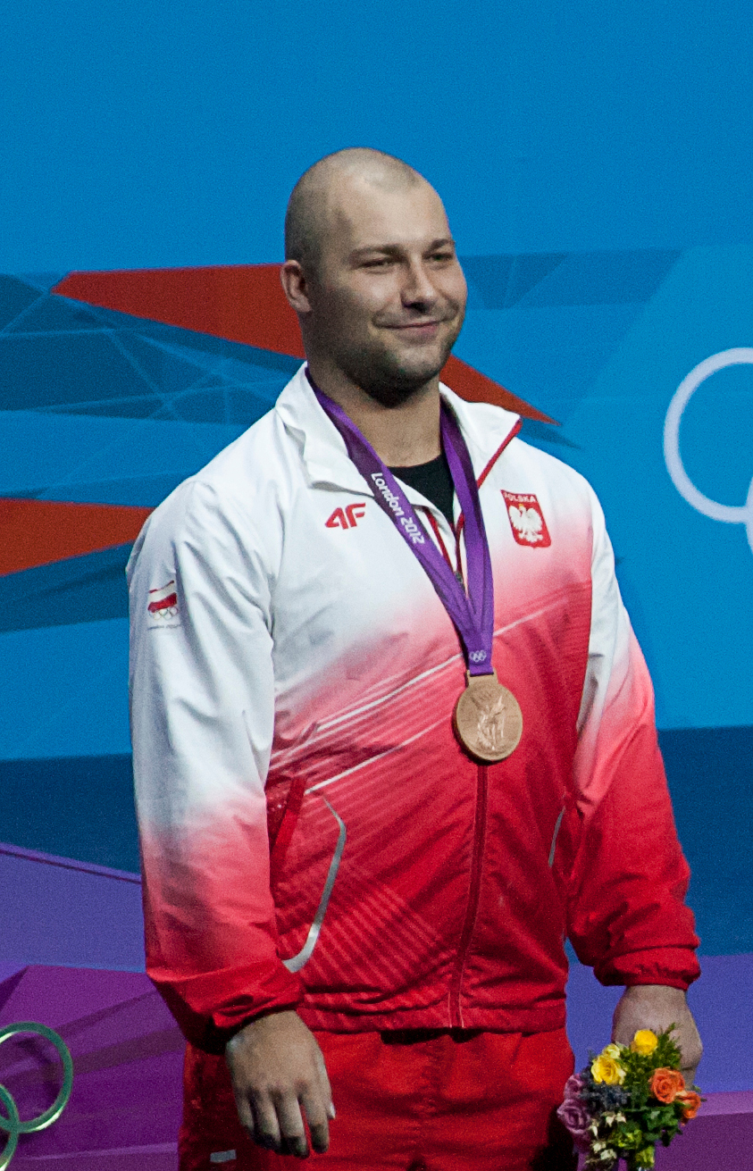 Bartlomiej Wojciech Bonk, Olympic 105Kg Weightlifting, Excel Centre 6th August 2012